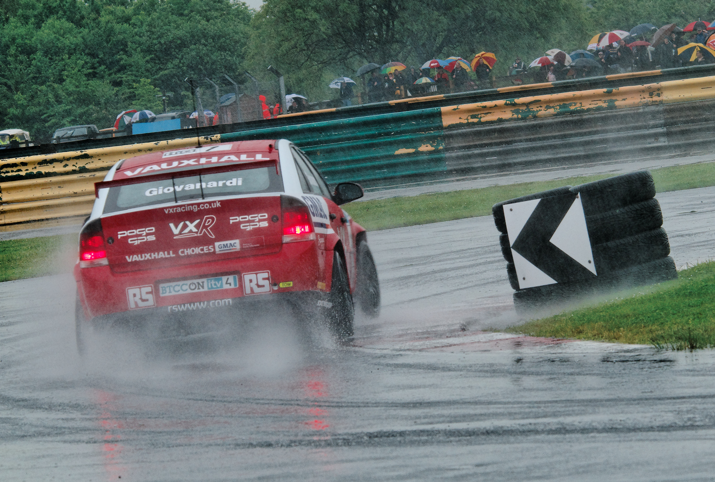 Fabrizio Giovanardi driving a Vauxhall at the Croft round of the 2008 British Touring Car Championship.